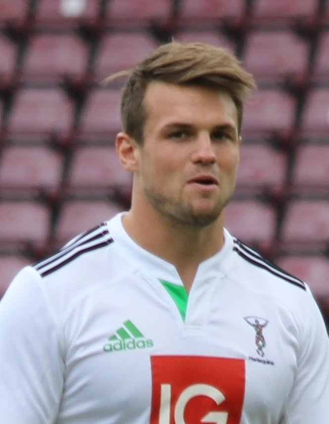 Jack Clifford in Harlequins colours.